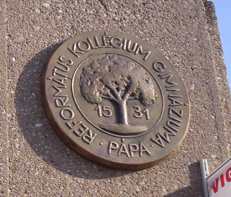 The mulberry tree, emblem of the Pápa Reformed College on the wall of the grammar school Az eperfa, a Pápai Református Kollégium jelképe a gimnázium falán